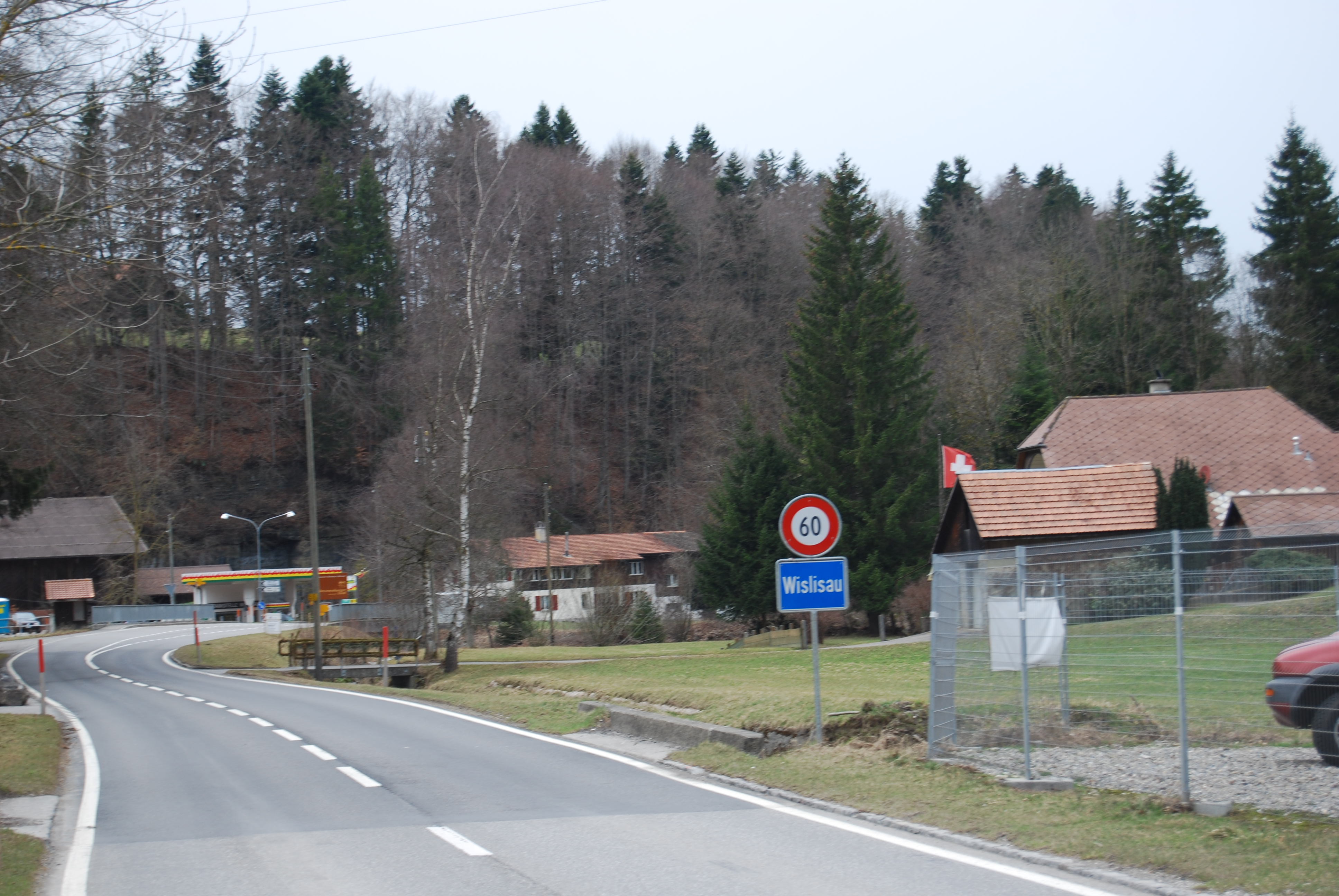 Wislisau, municipality of Rüeggisberg, canton of Bern, Switzerland